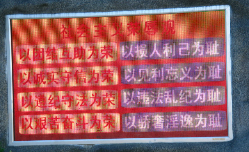 Picture taken by Lukacs in China.